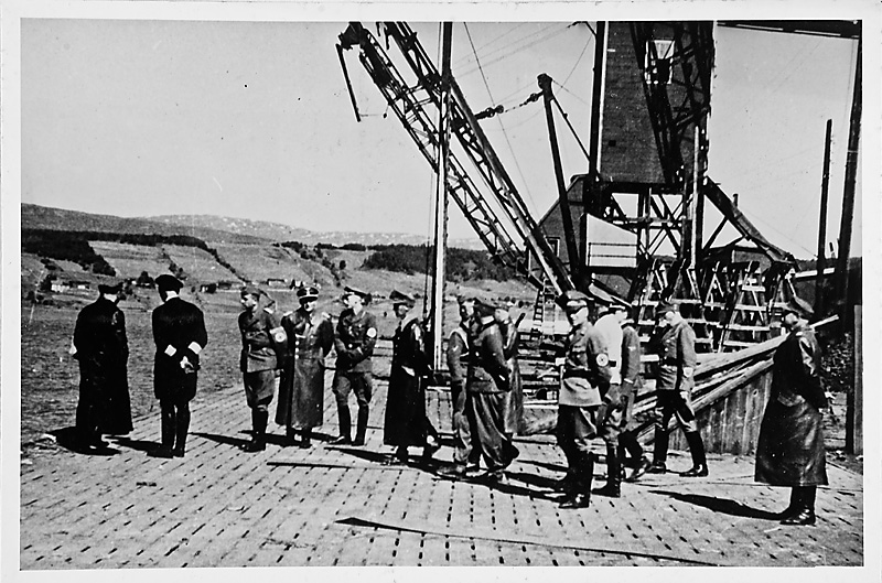 Image from "Photo Album from Terboven's journey to Nothern Norway and Finland 10–27 July 1942" (Mit dem Reichskommissar nach Nordnorwegen und Finnland 10. bis 27. Juli 1942), 375 images uploaded to www. by Riksarkivet (National Archives of Norway) 2012. See scanned album here